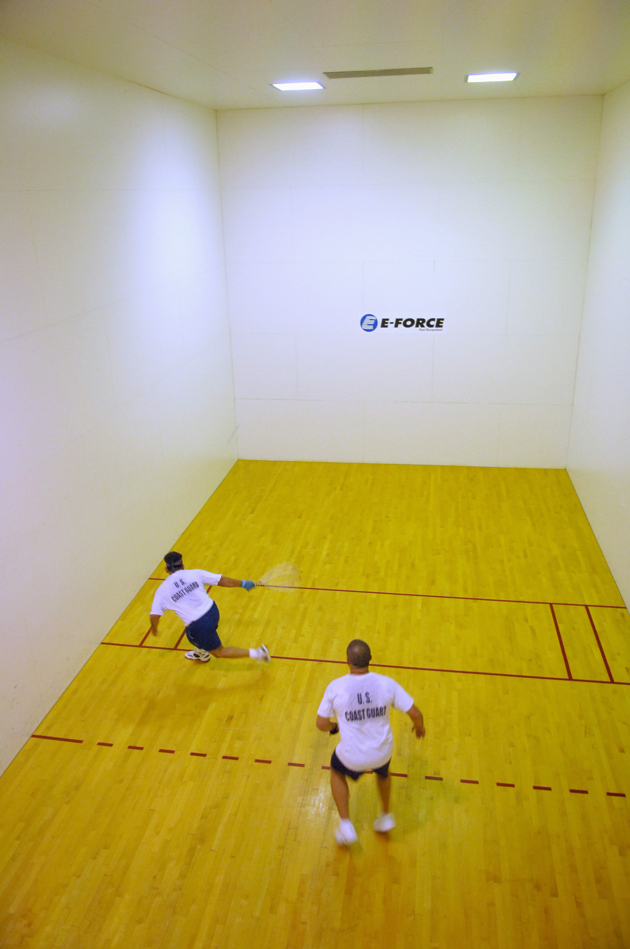 Chief Warrant Officer Freddy Alvizo chases down a loose ball after Petty Officer 2nd Class Samuel Wilson returned it. Alvizo defeated Wilson in the championship game at this year�s CG�s Cup racquetball tournament.